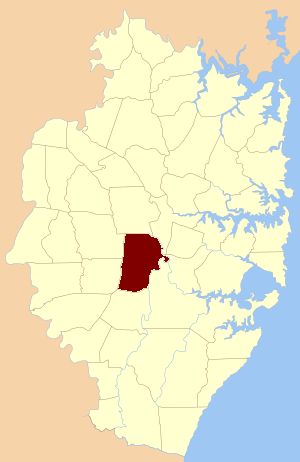 original location of the parish within Cumberland County, New South Wales (Sydney area)